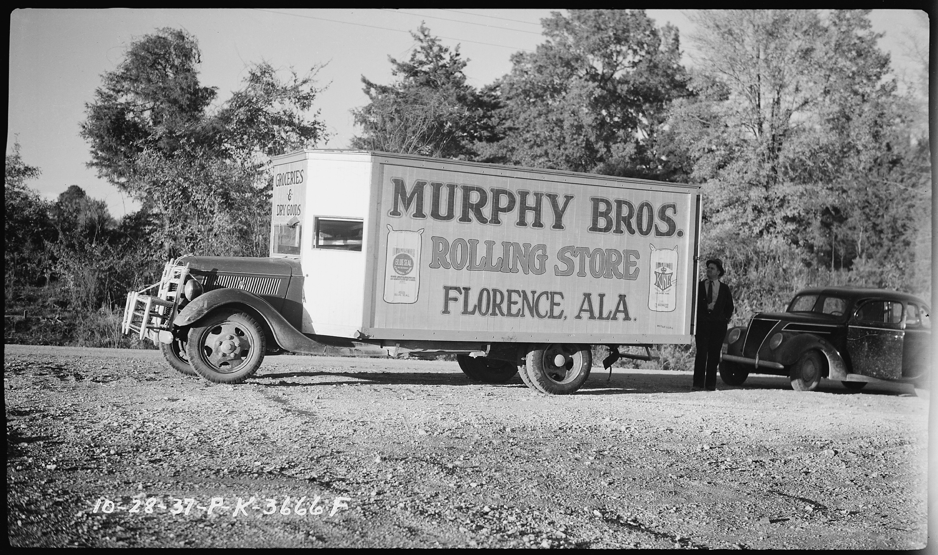 Scope and content: This photograph depicting the Murphy Brothers' Rolling Store of Florence, Alabama was created in association with the Pickwick Dam Project conducted by the Tennessee Valley Authority.